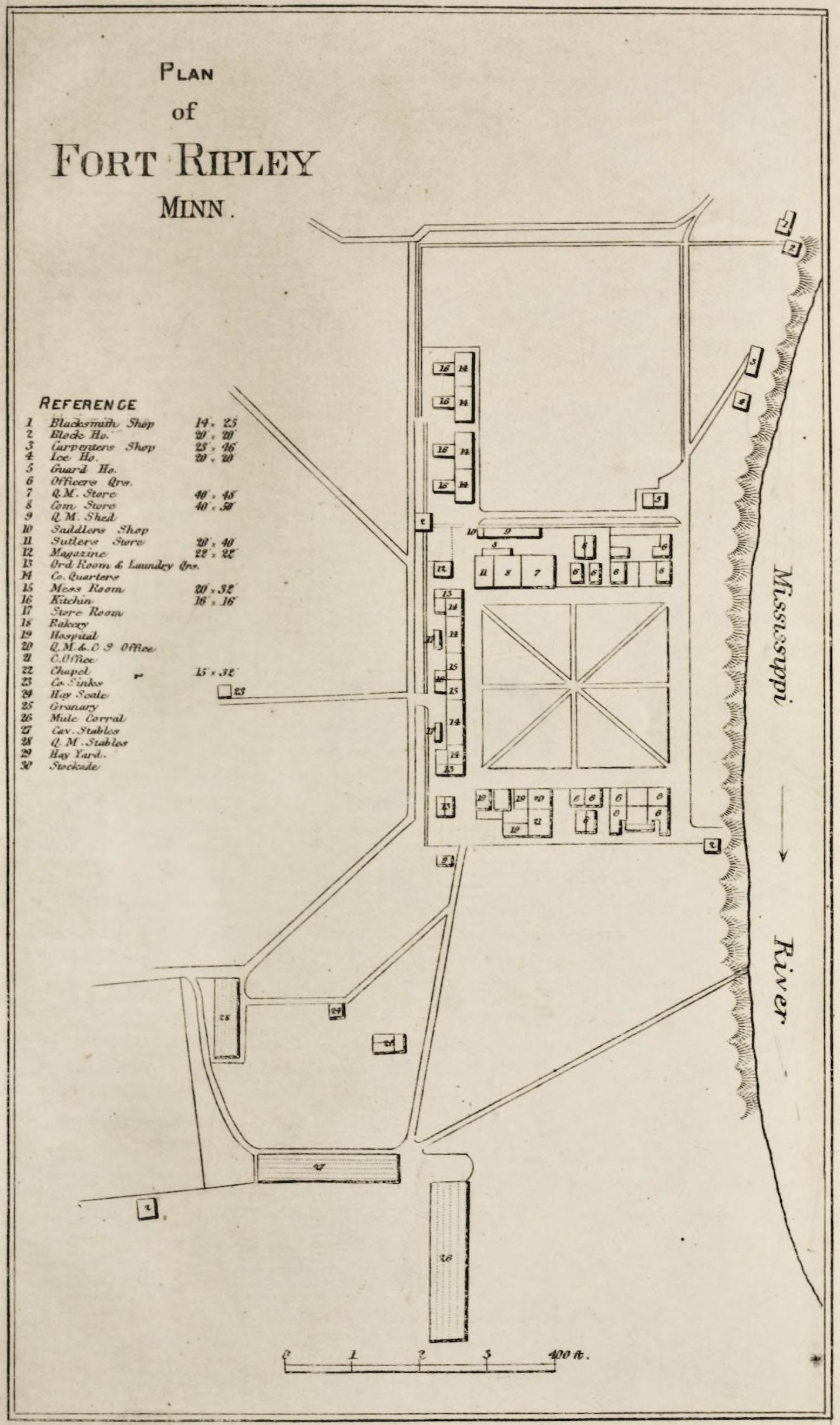 Map showing plan of Fort Ripley, Minnesota. Established as Fort Gaines, 1848, and renamed Fort Ripley November 4, 1850. Surveyed June 5, 1874. Buildings for two companies